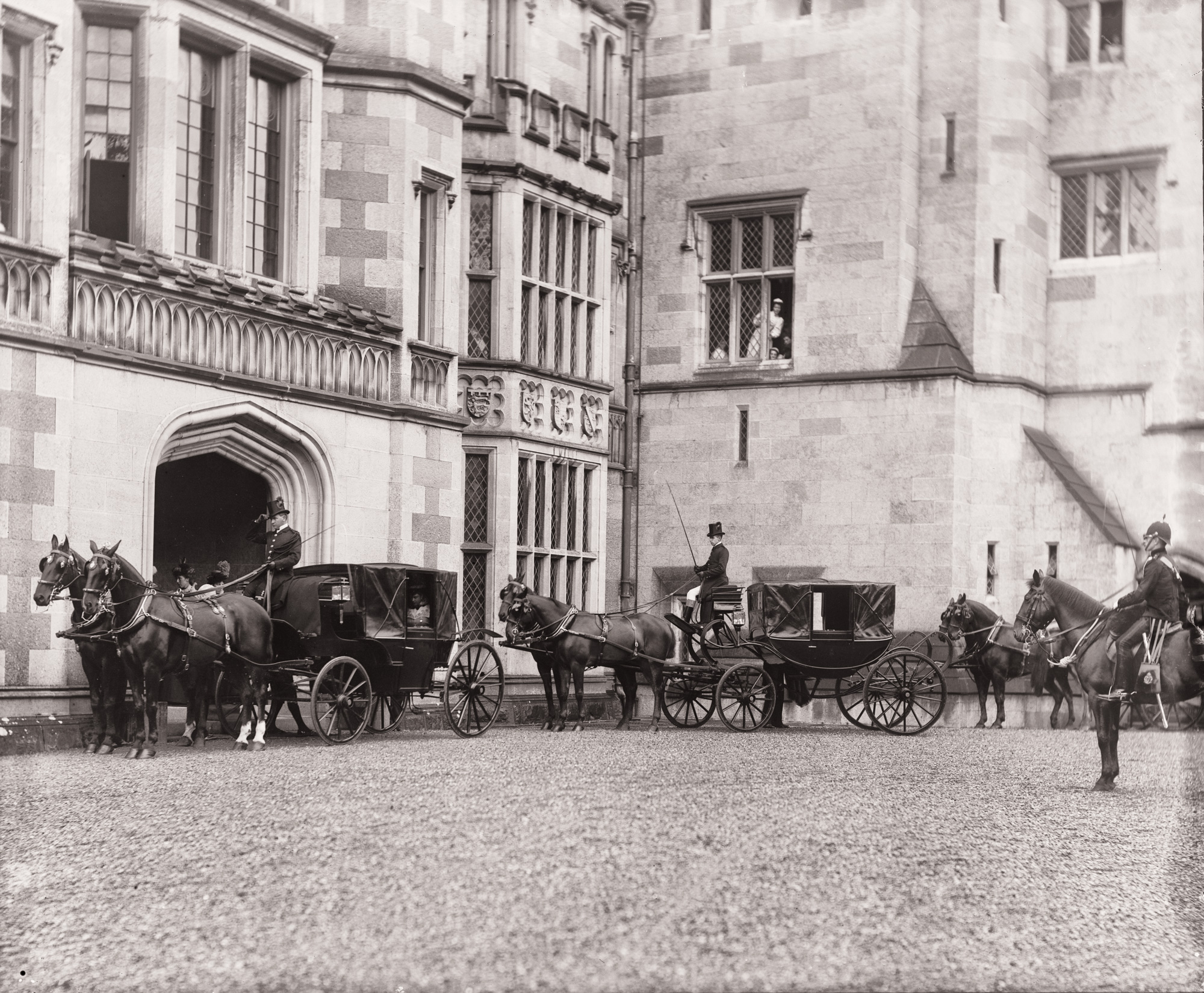 Photograph taken Wednesday, 1 September 1897. Format: glass negative Part of: National Library of Ireland Poole Collection Reference number: POOLEIMP 527